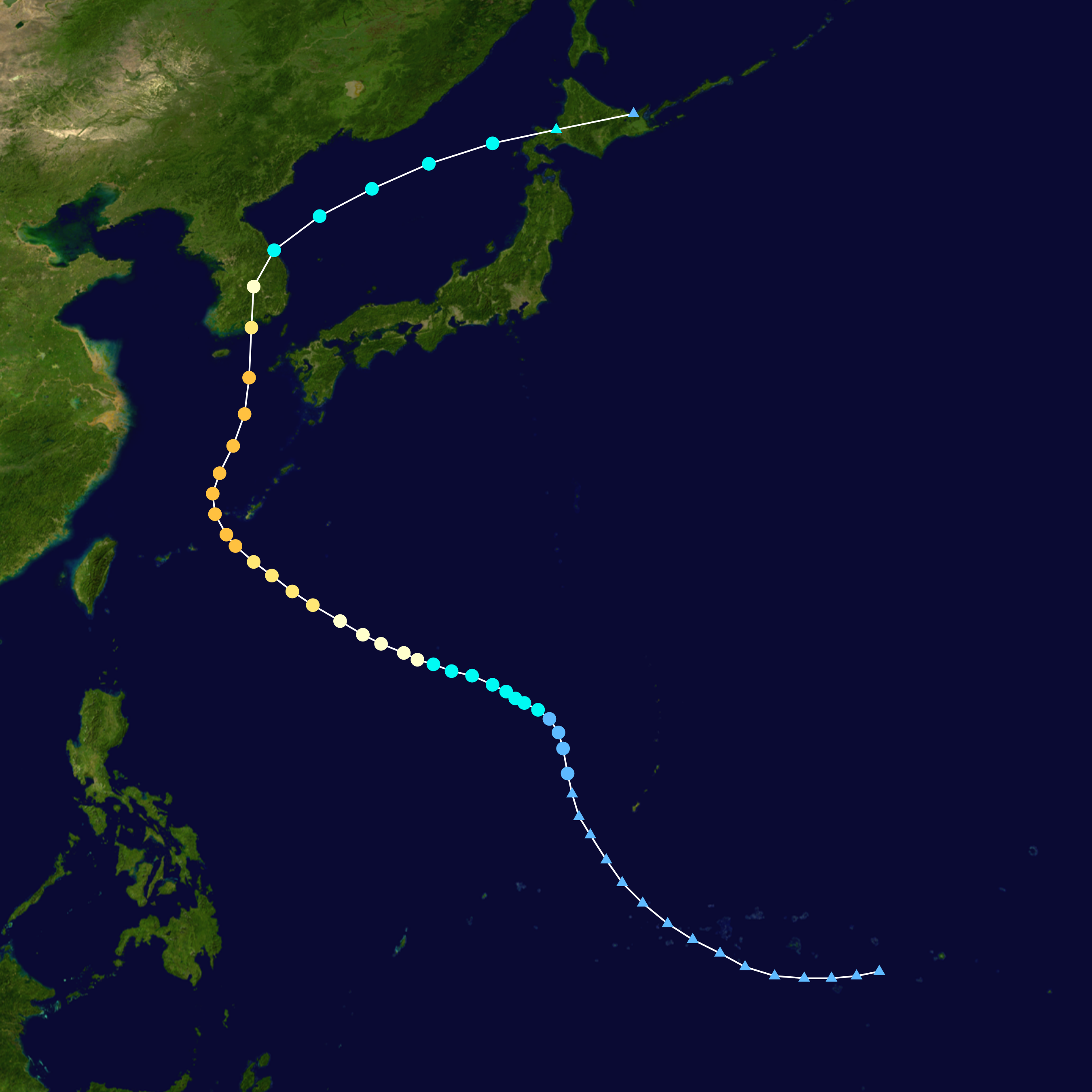 Typhoon Faye 1995 track. Uses the color scheme from the Saffir-Simpson Hurricane Scale.